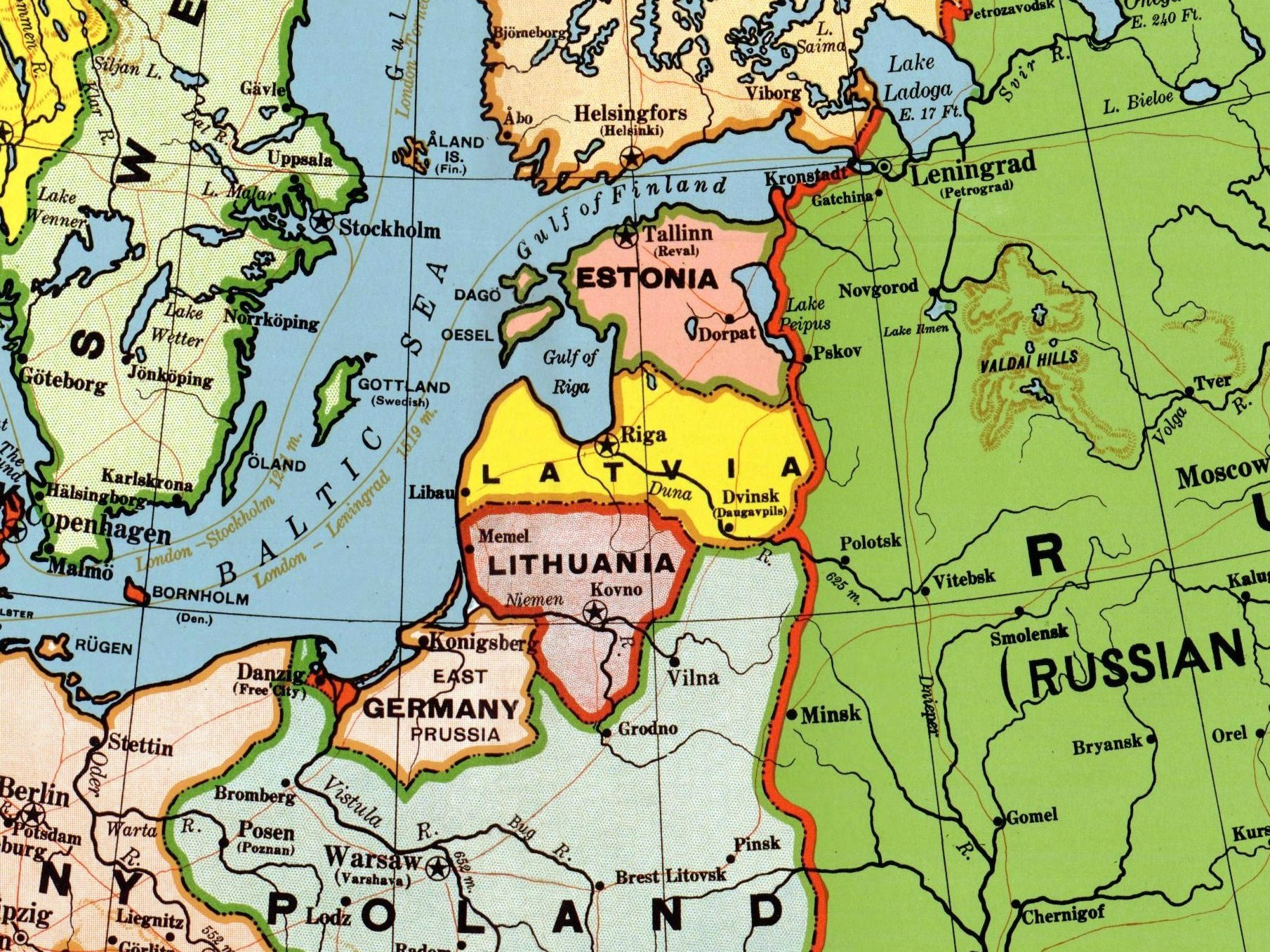 Lithuania, Latvia and Estonia, Bacon's standard map of Europe, 1923.